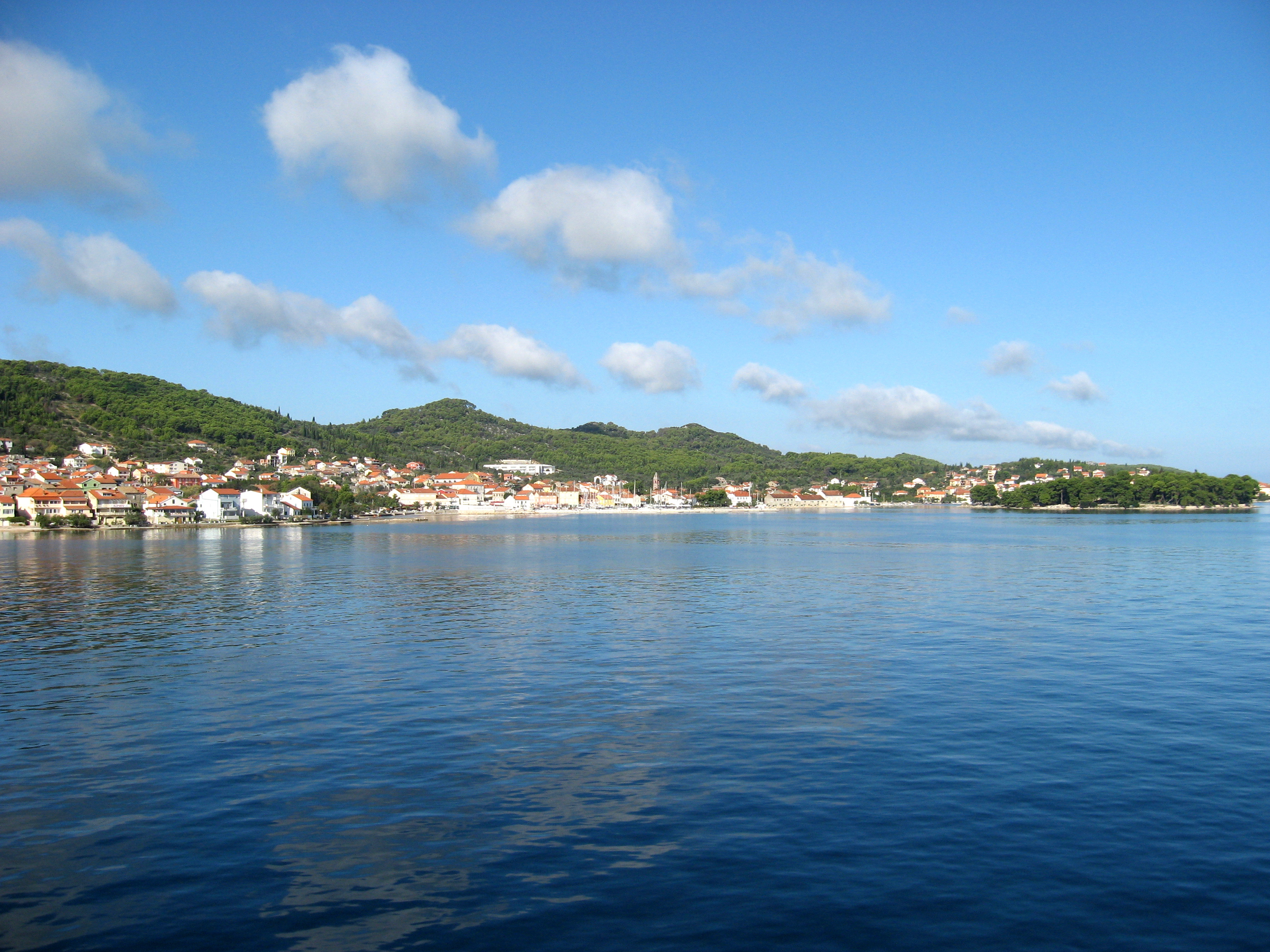 Preko town (Croatia)